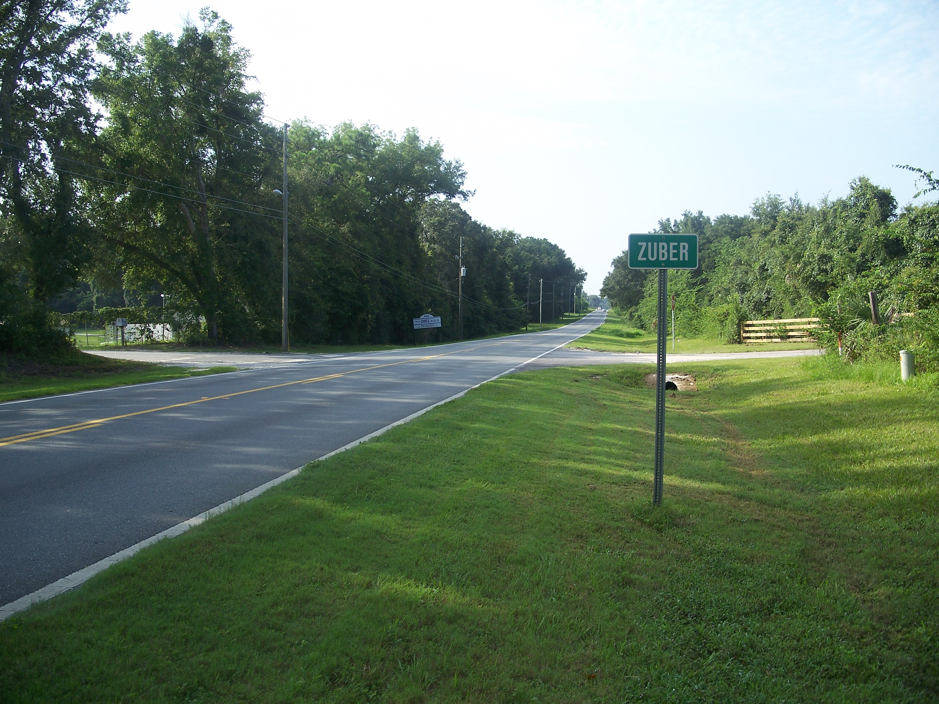 Zuber, Florida: County Road 25A, going through the town.